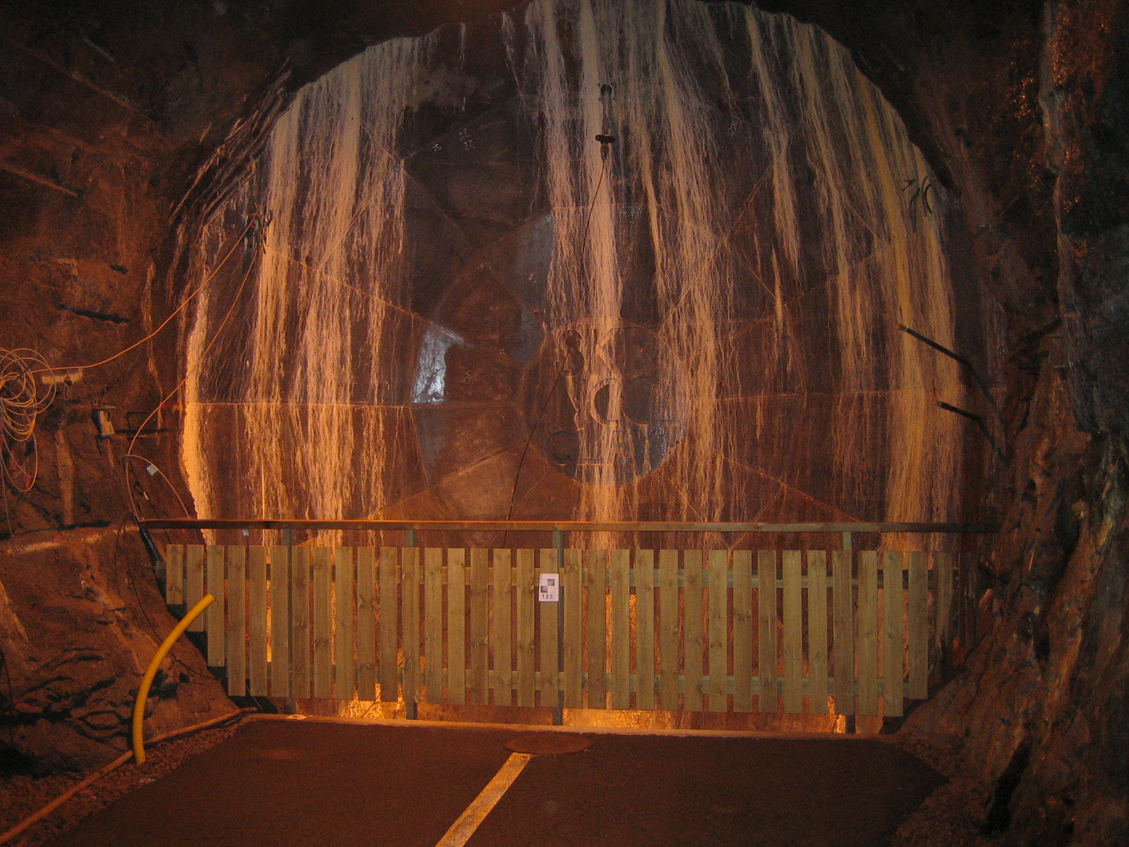 Test tunnel sealed with bentonie clay at the underground part of the Äspö laboratory near Oskarshamn nuclear plant in Sweden. The laboratory is dedicated to find a suitable way to store nuclear waste for 100 000 years.